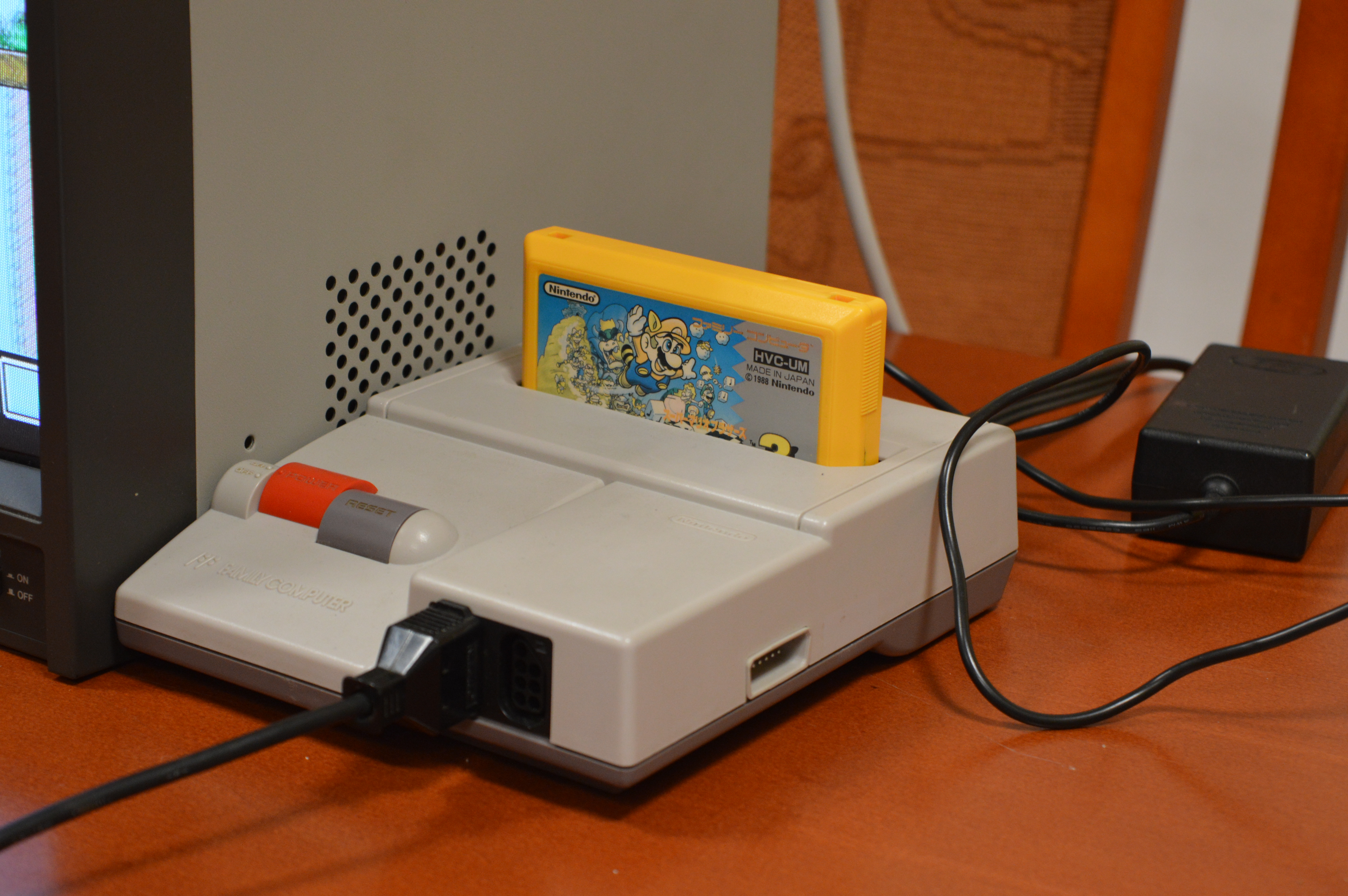 Famicom game console displayed during an enthusiast meeting in Gdansk